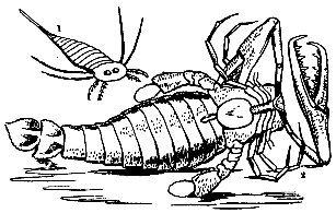 Restorations of Stylonurus powriensis (powriei) (1) and Pterygotus anglicus (2) in Page's Introductory Text-book of Geology. ed. 5. 1859. p. 71 The Eurypterida of New York. Volume 1. New York State Museum Memoir 14, figure 70